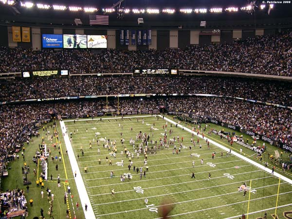 New Orleans: "Saints Win". Victory for the "New Orleans Saints" football team seen inside the Louisiana Superdome.